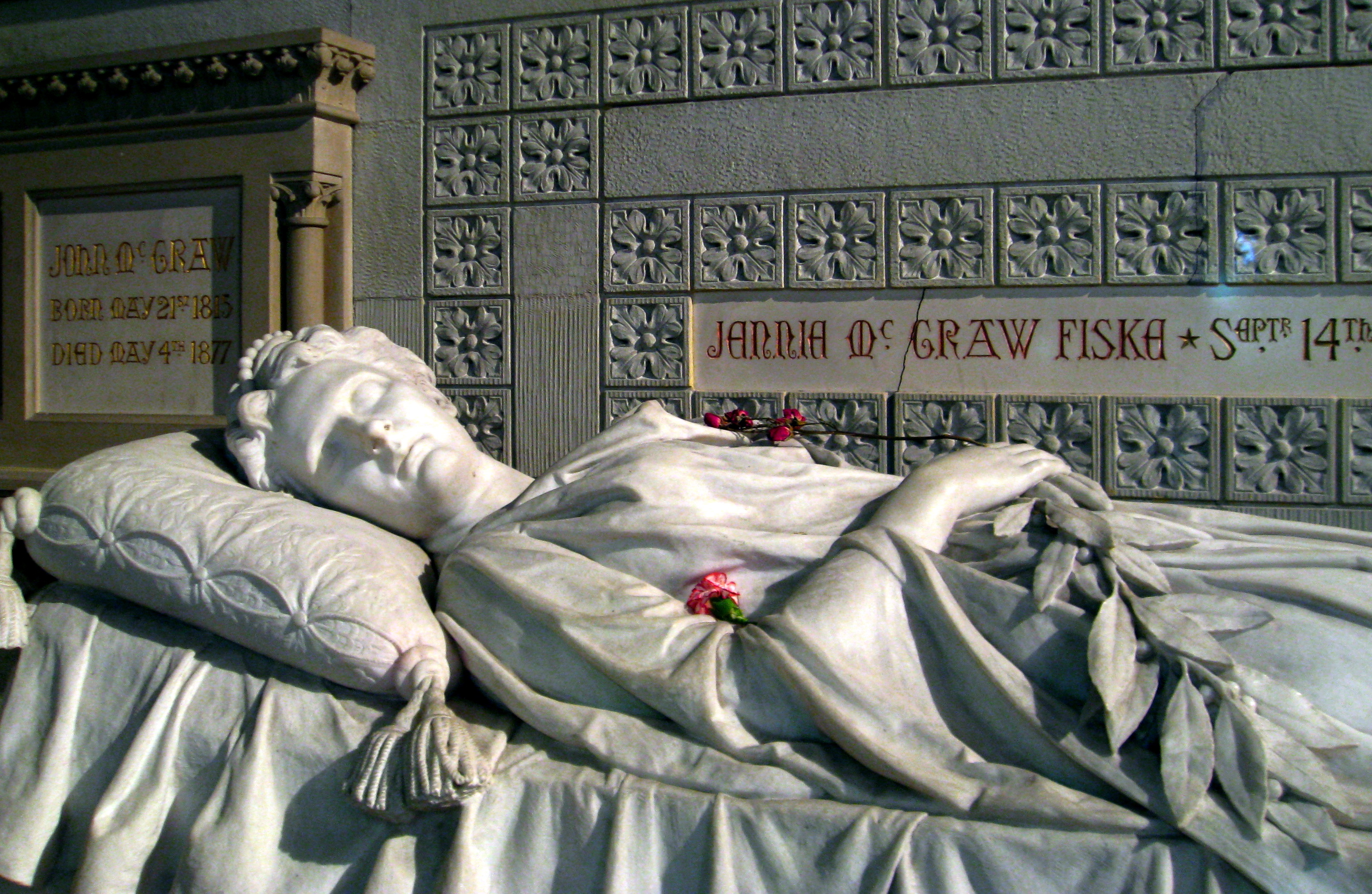 Jennie McGraw sarcophagus, crypt of Sage Chapel, Cornell University, Ithaca, New York, USA